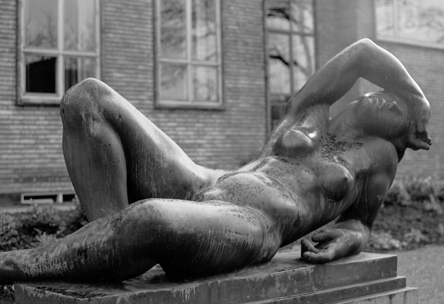 Kai Nielsen: Leda uden Svanen (Leda without the swan), 1920. Bronze 1937.